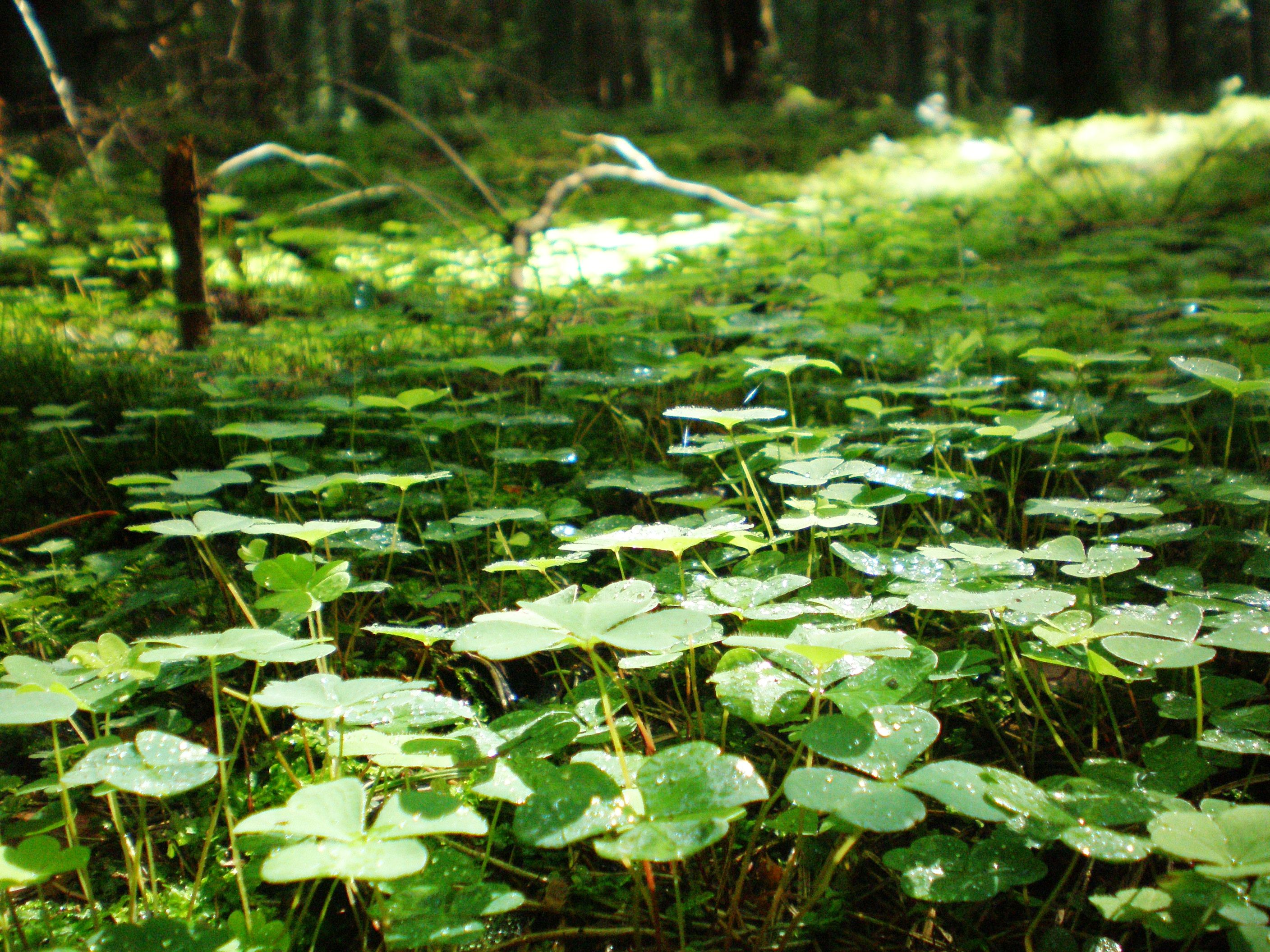 Common wood sorrel in Josvainiai forest, Lithuania